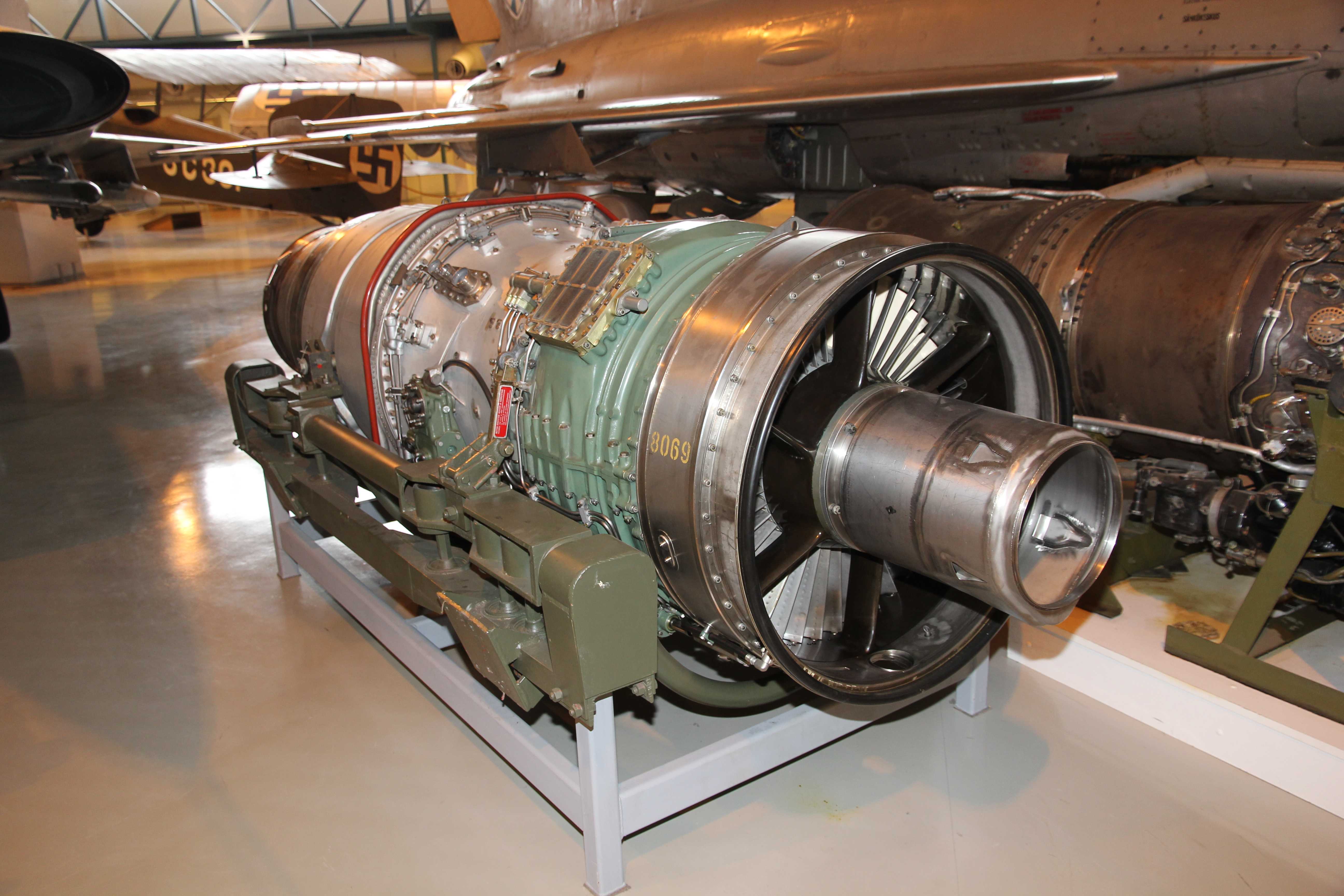 Volvo Flygmotor RM6B jet engine from Saab 35CS fighter trainer in Aviation Museum of Central Finland.